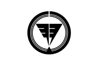 Flag of Hanyu Saitama